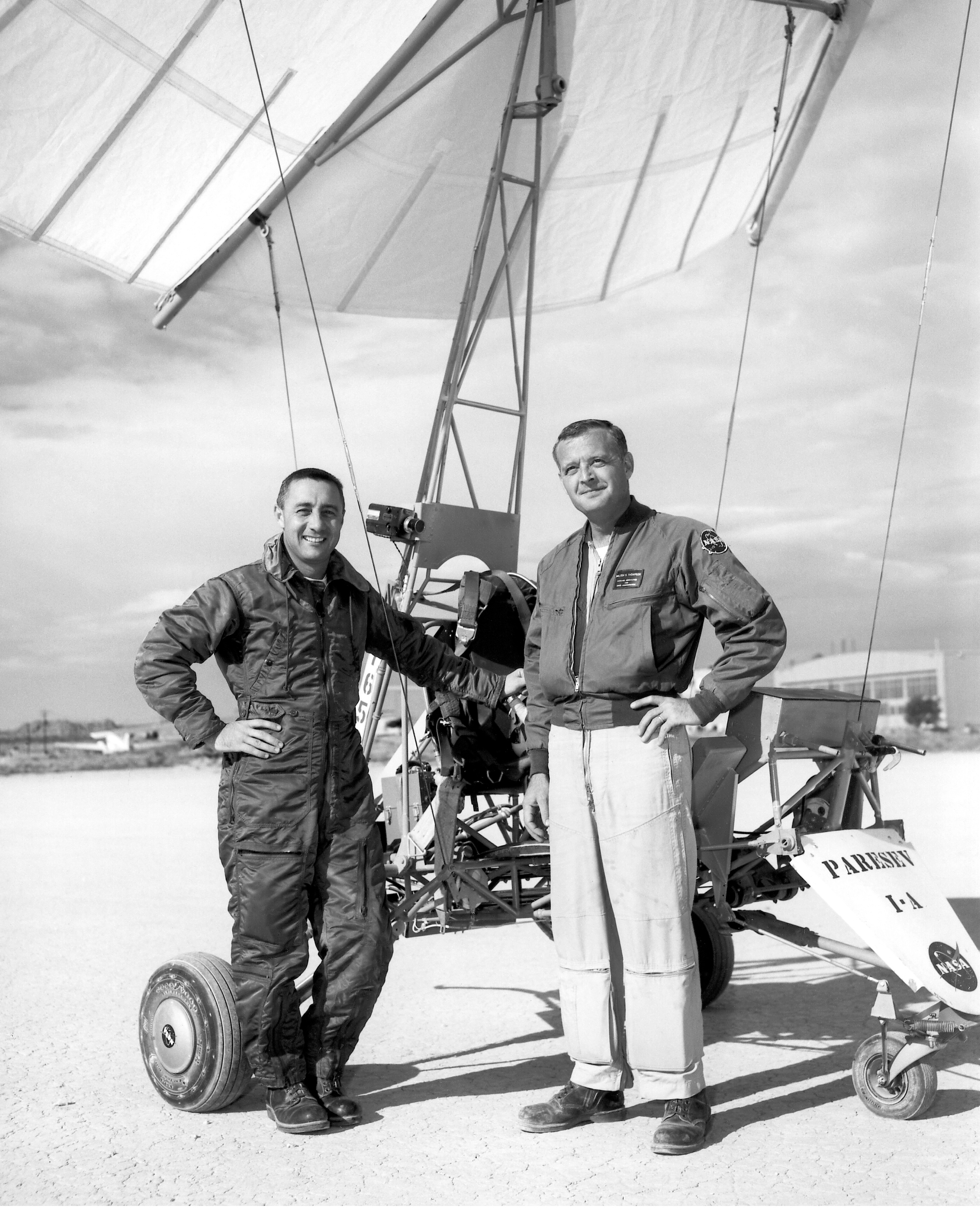 The Paresev 1-A standing Rogers Dry Lakebed at the NASA Flight Research Center, Edwards, California. Mercury Astronaut Gus Grissom is at left and NASA test pilot Milton Thompson is at right. The Paresev evaluated a potential replacement for parachutes used on spacecraft. The Paresev was steerable and was evaluated for use on the Gemini spacecraft. The idea was not workable, however.